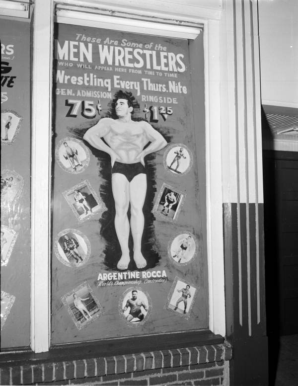 A poster advertises Antonino Rocca